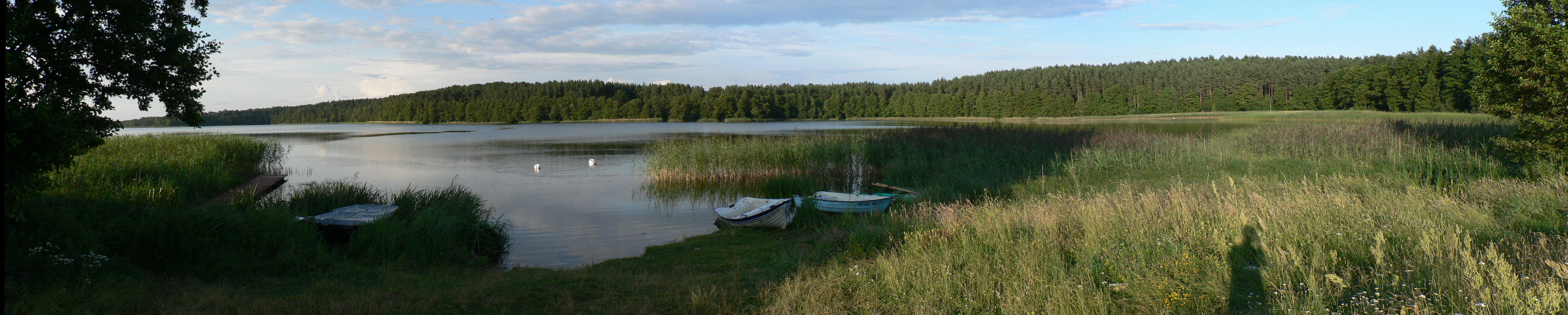 Panorama of Lake Łańskie, from south end